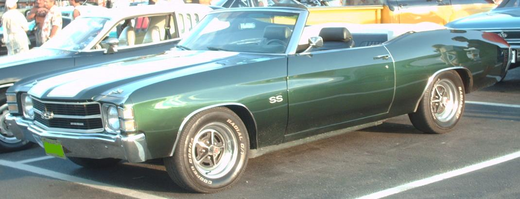 Chevrolet Chevelle SS convertible photographed in Montreal, Quebec, Canada at Gibeau Orange Julep.